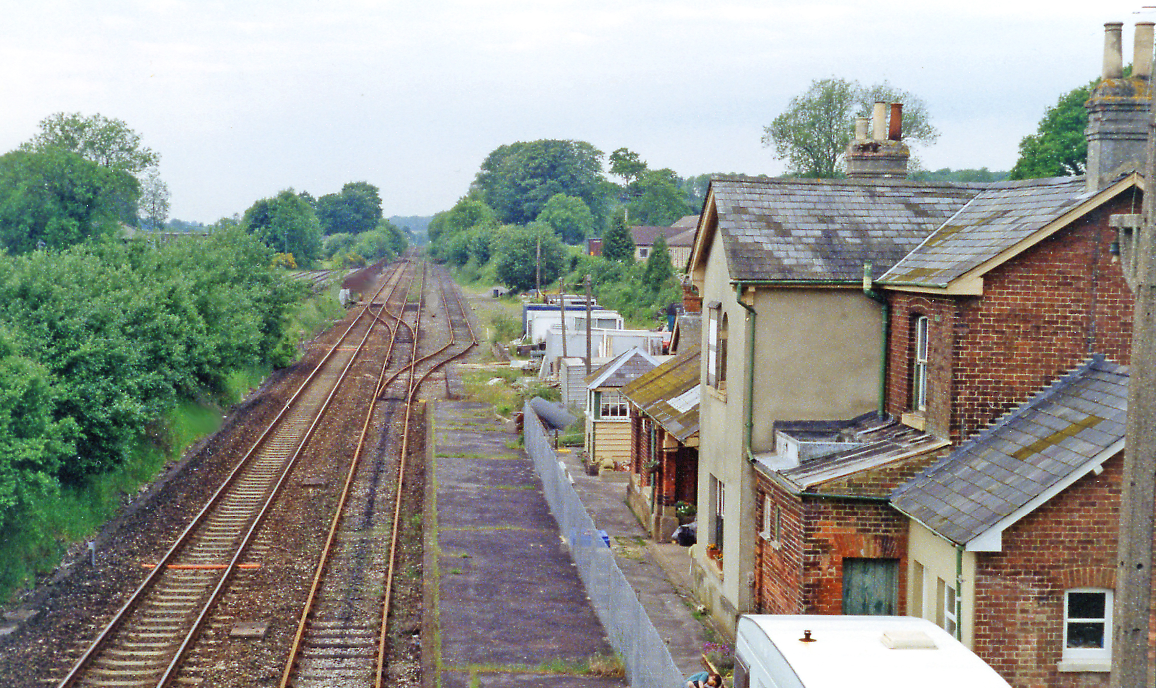 Dinton station (remains), 1994. View westward, towards Exeter: ex-LSWR London etc. - Salisbury - Exeter (former) main line. The station had been closed 16/4/66 and the former main line reduced to single track soon after - as can be seen by the rusting Up line. On the left can just be seen the remnant of the lines serving the RAF Chilmark Depot, closed in 1994.